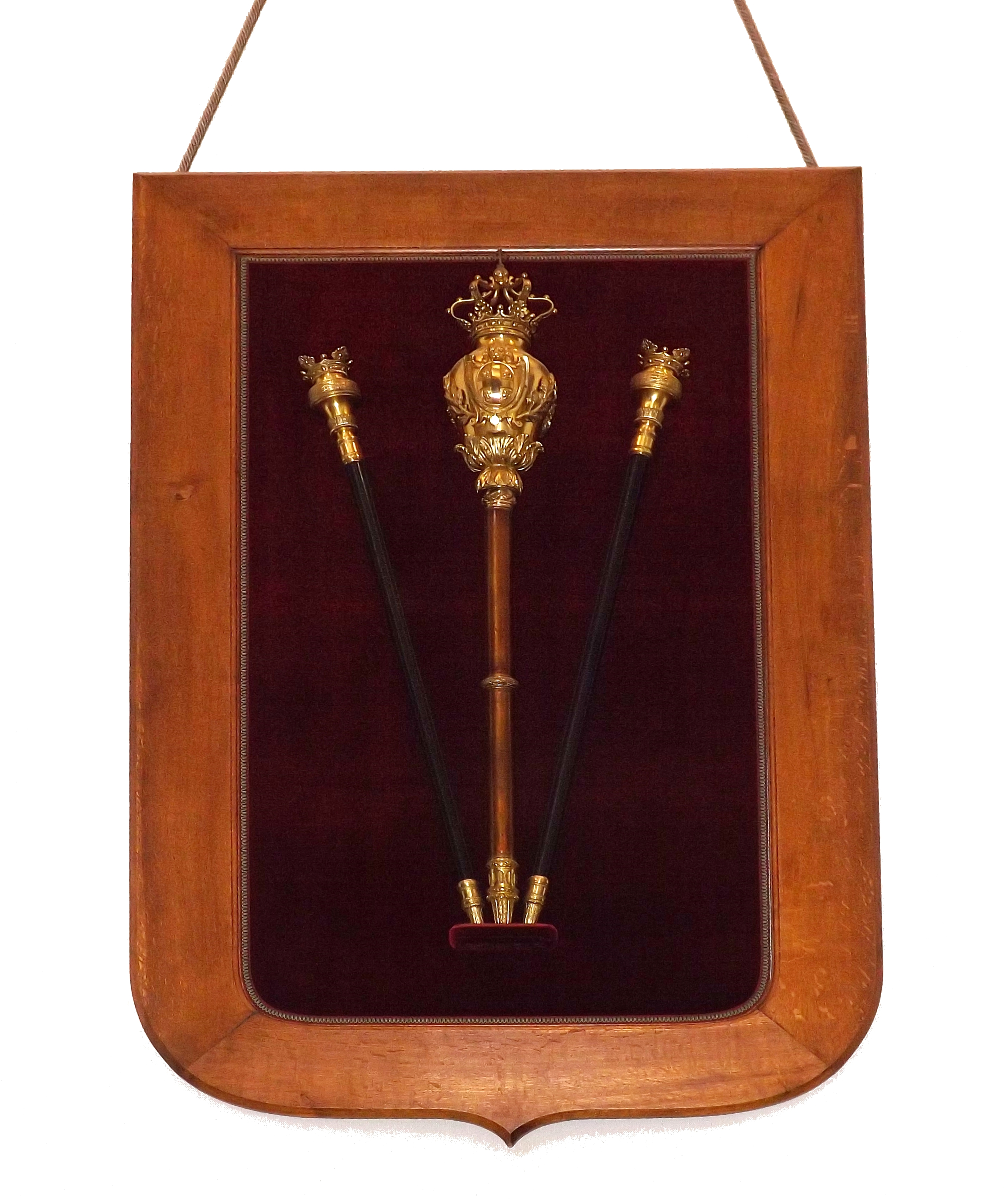 Sight of the previous Sénat de Savoie silver mass with golden Savoyan coat of arms, and its two silver baguettes, here in the city of Chambéry courthouse, in Savoie, France.